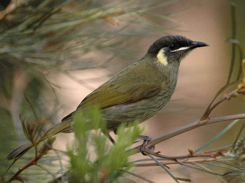 Lewin's Honeyeater (Meliphaga lewinii) Kobble Creek, SE Queensland, Australia